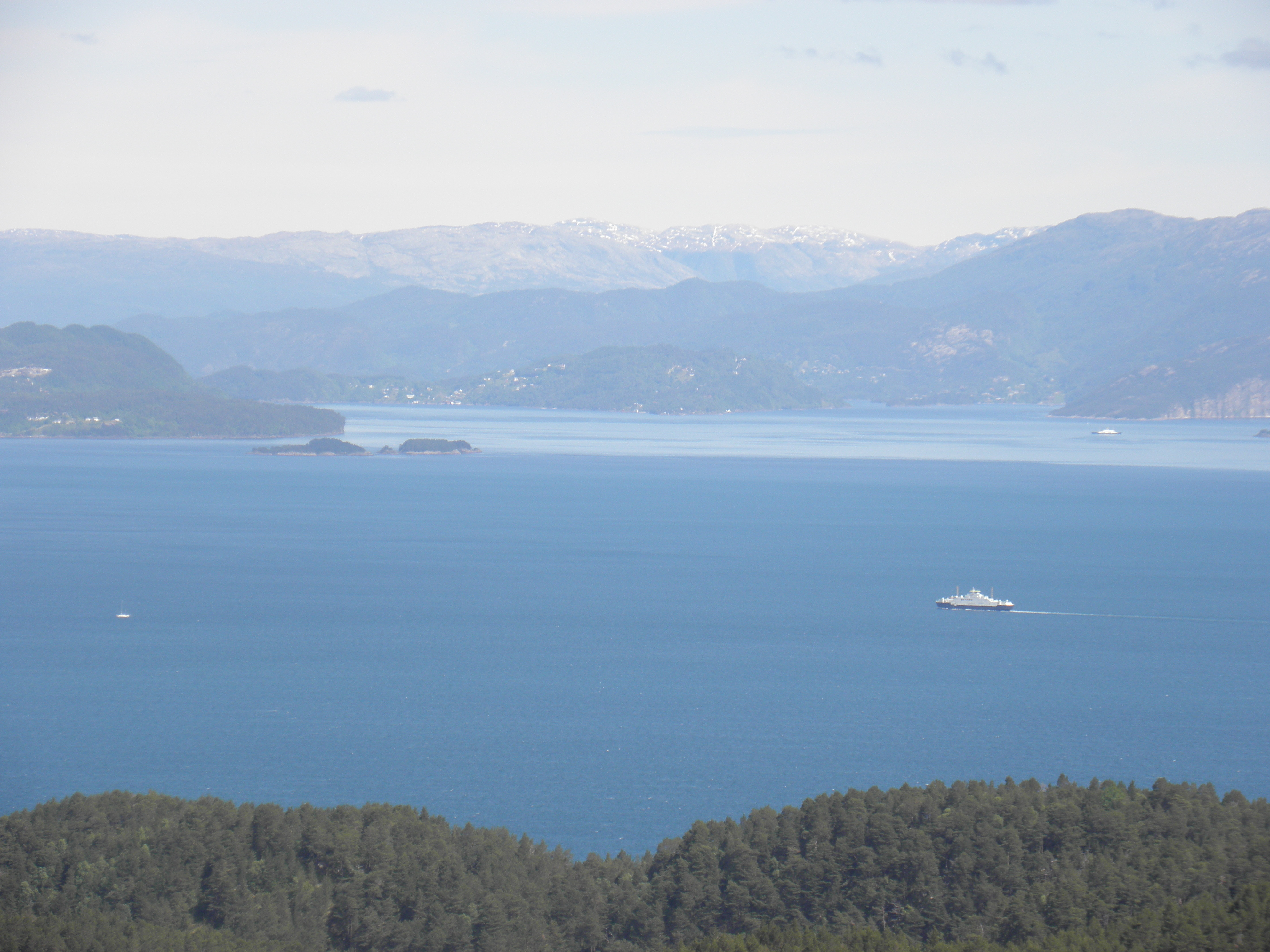 A ferry in Bjørnafjorden in Hordaland, Norway.